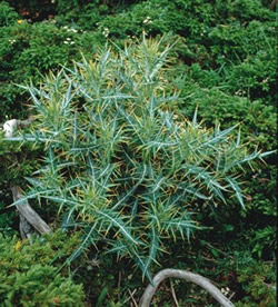 According to IUCN/SSC specialists this is one of the most endangered species of island floras in the Mediterranean area.